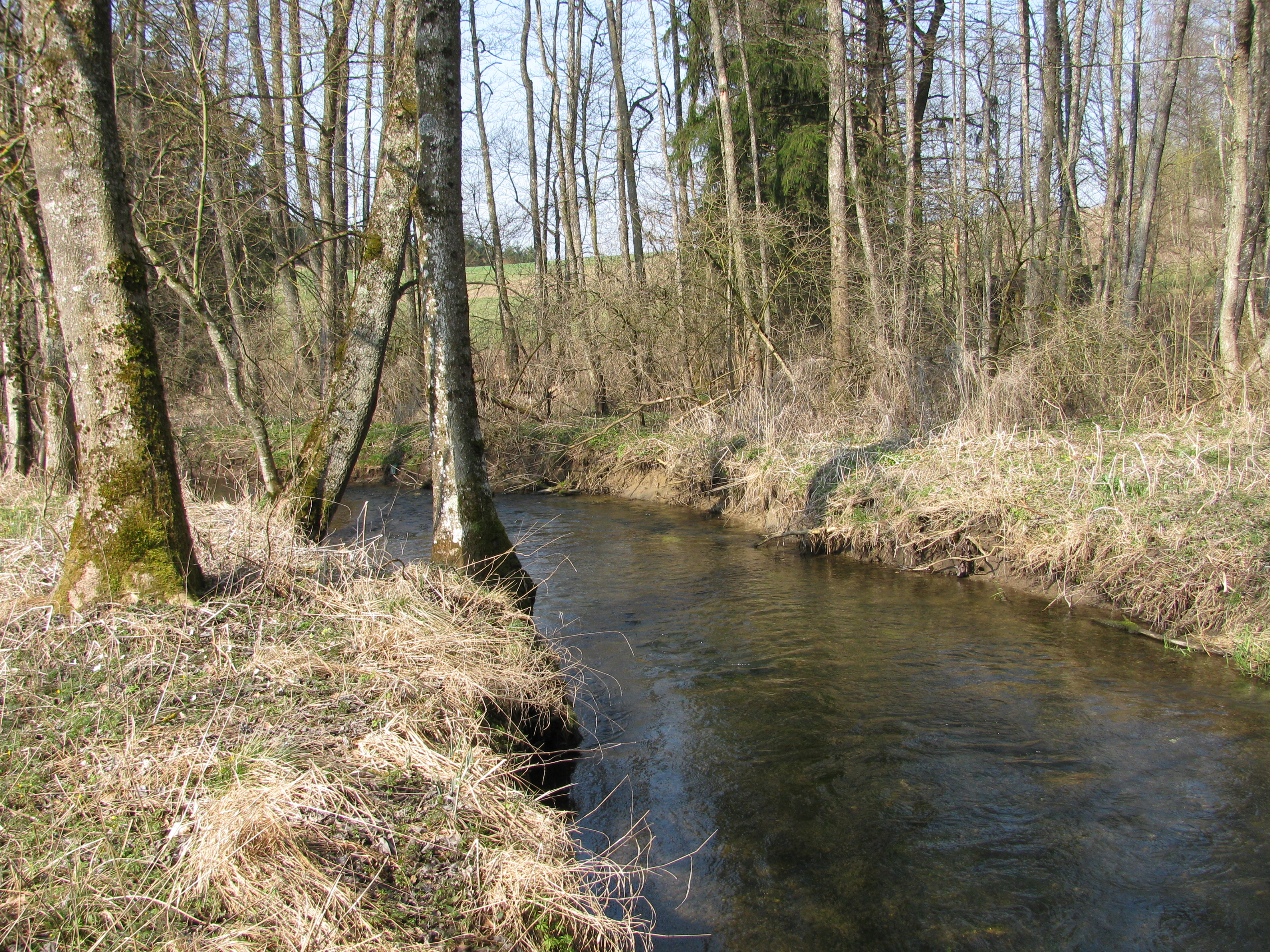 Germany - Baden-Württemberg - Bodenseekreis - Tettnang: river 'Schwarzach' inside the nature reserve 'Knellesberger Moos'